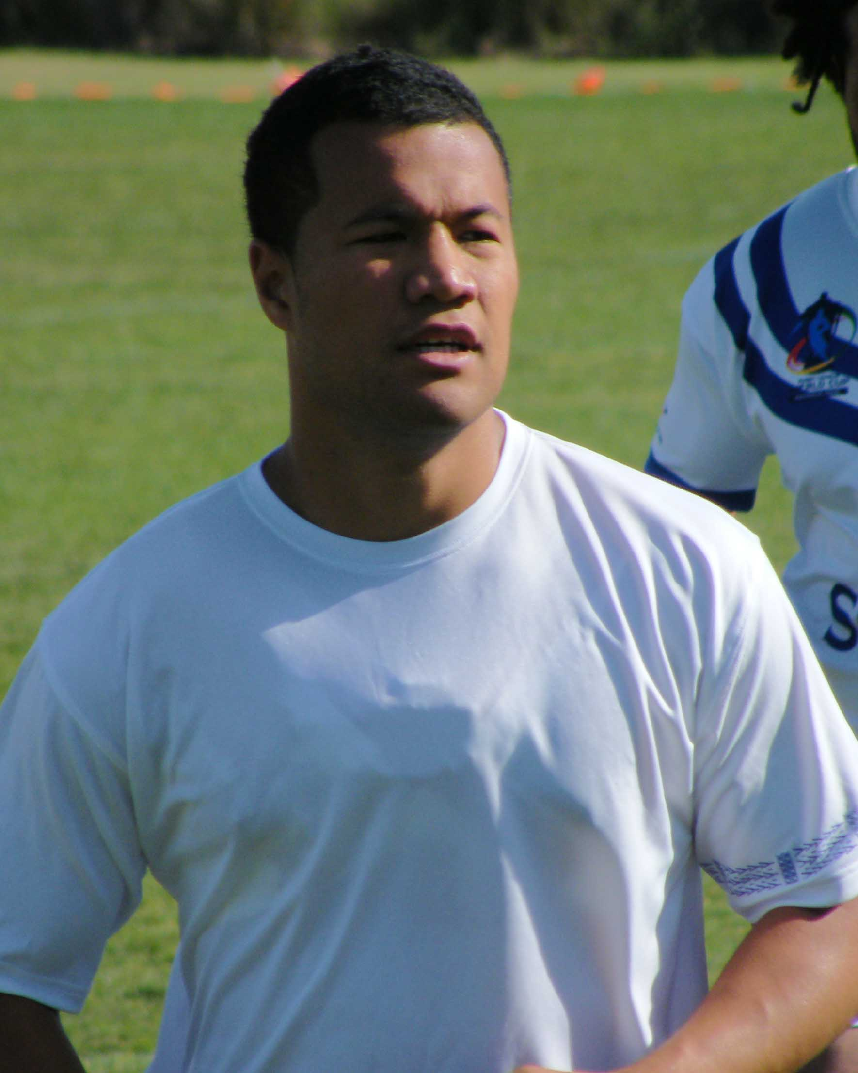 RLWC 2008 - Samoa v France at Penrith. Samoan forward Joseph Paulo.